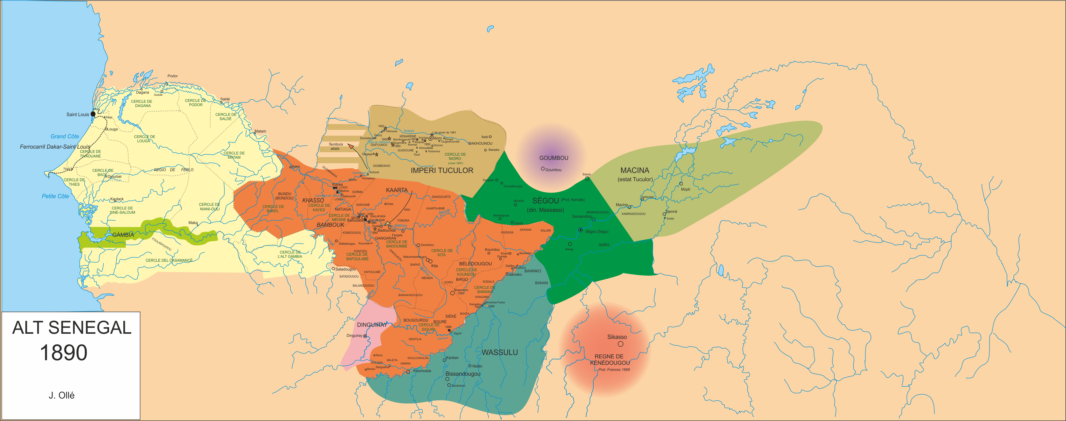 Senegal & Mali 1890, III